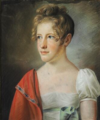 Albertine Emmerentze, née Schmidt, wife of Christian Waagepetersen